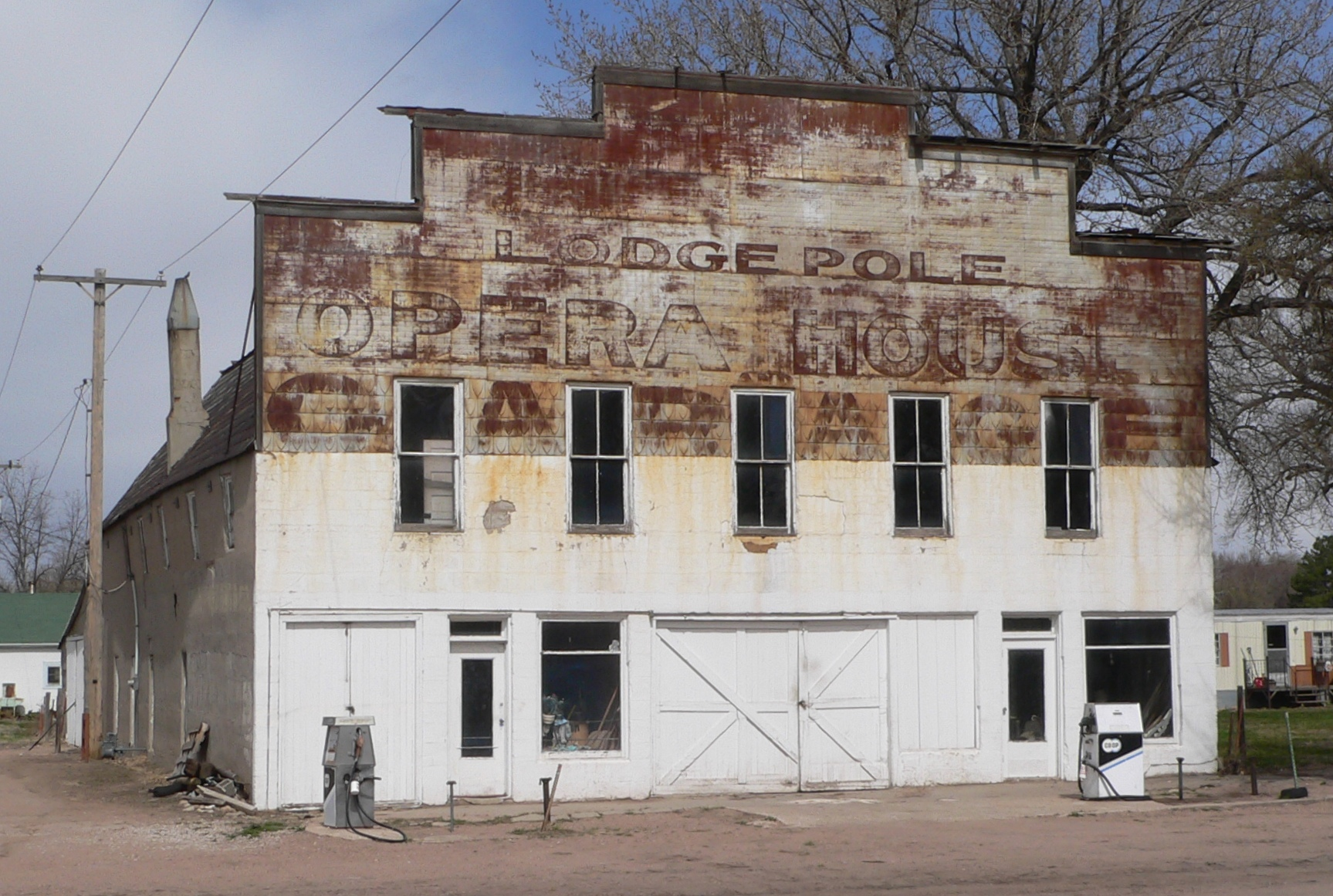 Lodgepole Opera House in Lodgepole, Nebraska; seen from the southeast